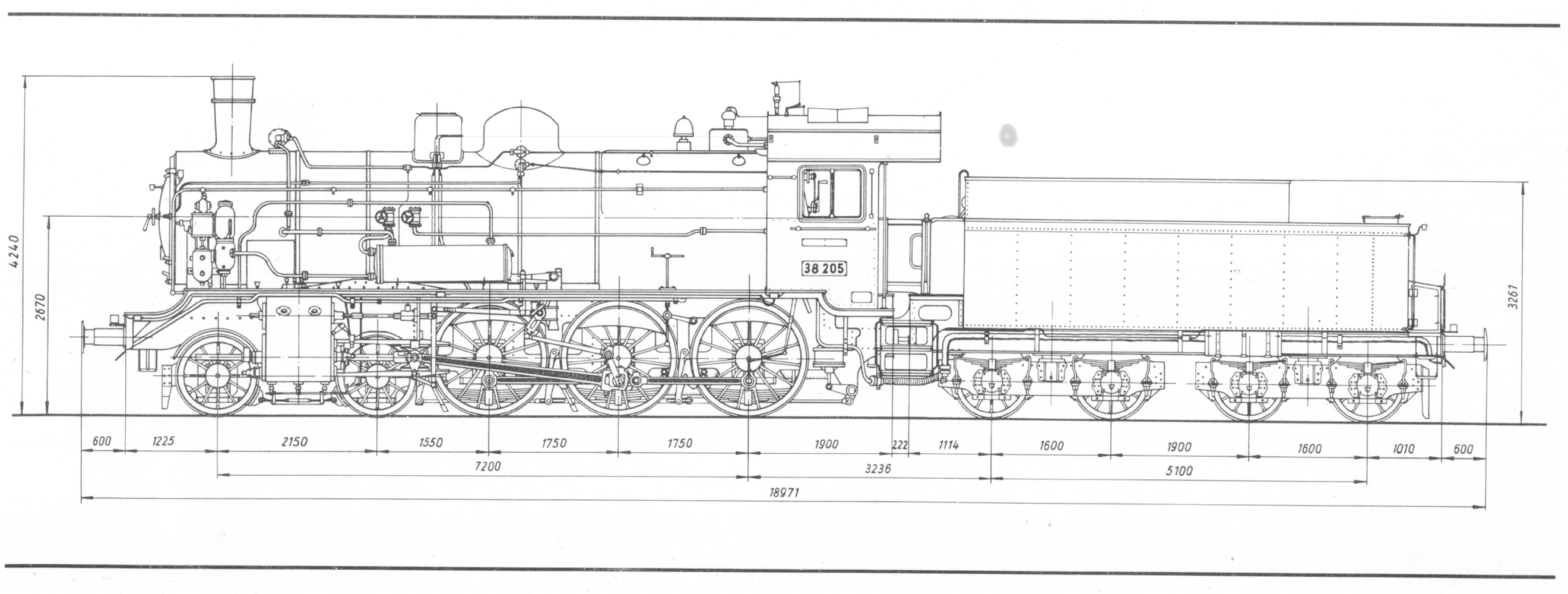 Sectional drawing of the steam locomotive number 38 205 of the Deutsche Reichsbahn